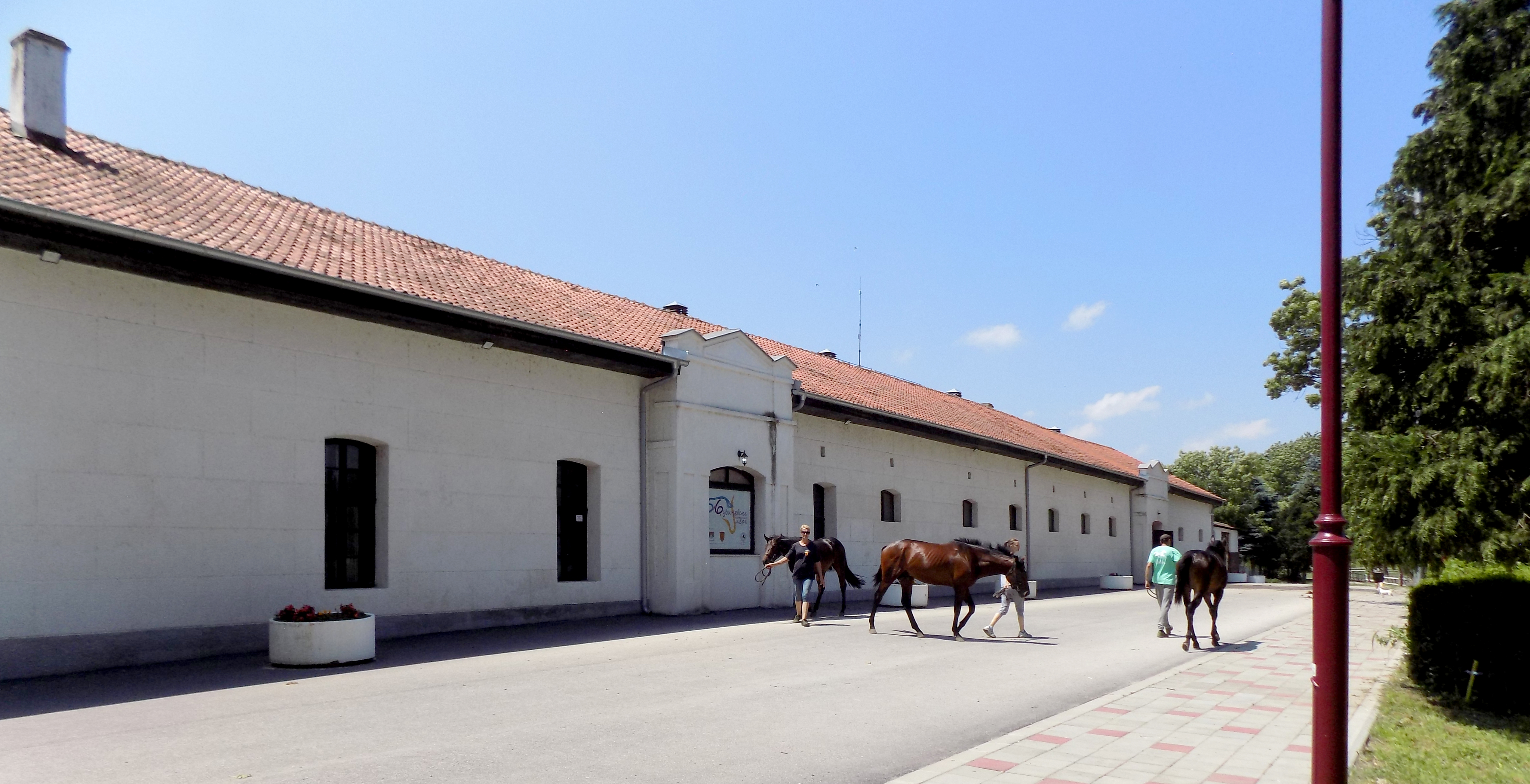 Ljubičevo Stable - stables and manege